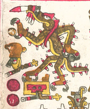 Cipactli described in the Codex Borgia.